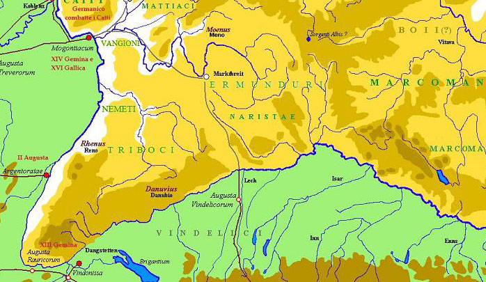 The borders of the Roman Empire at the western Danube, with Augusta Vindelicorum (Augsburg) in the year 10 AD, crop from a larger map called Germania Magna jpg.jpg from the user Cristiano64, who published it on GNU Free Documentation License, Version 1.2